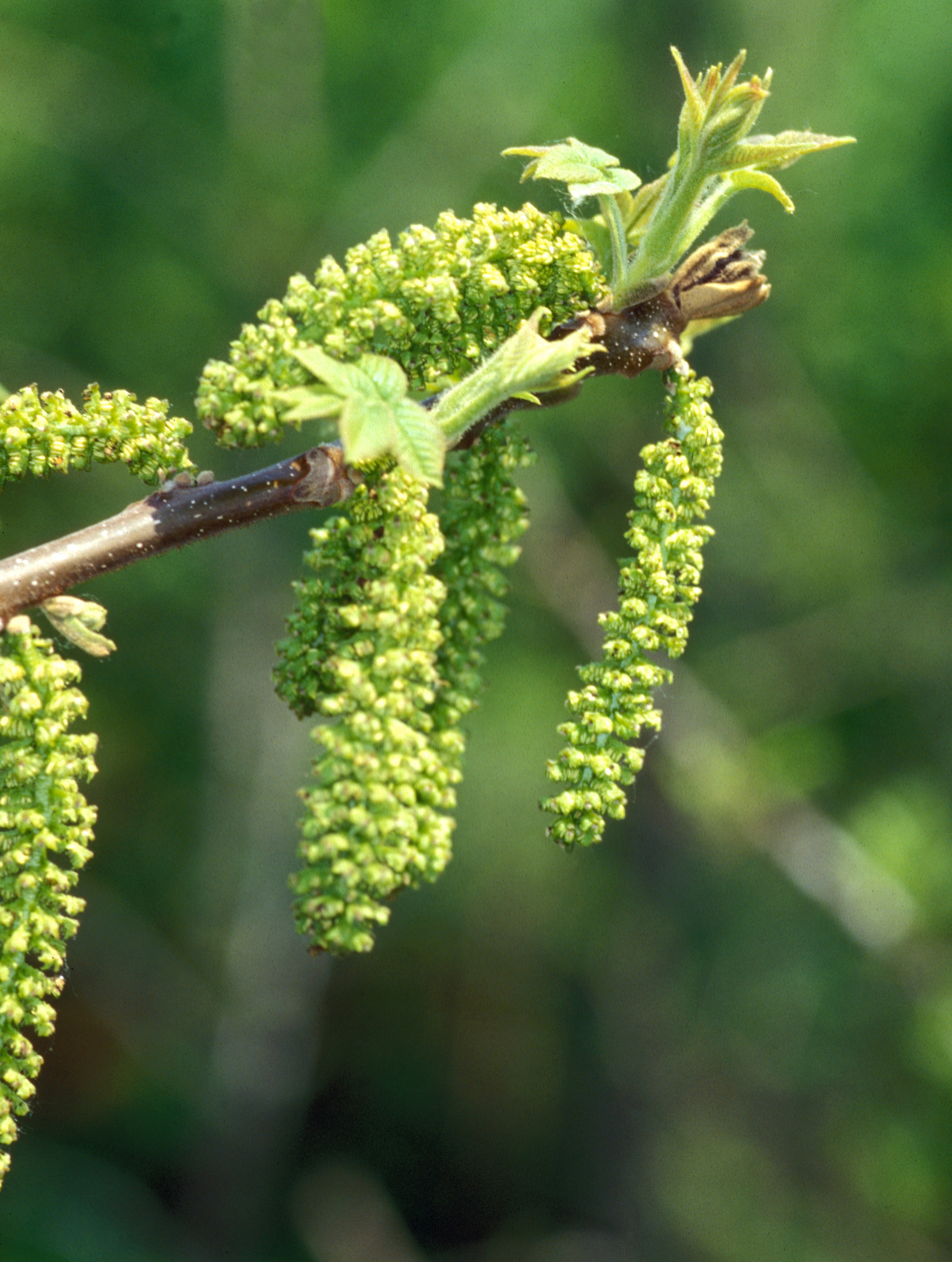 Juglans cinerea, young leaves and male catkins